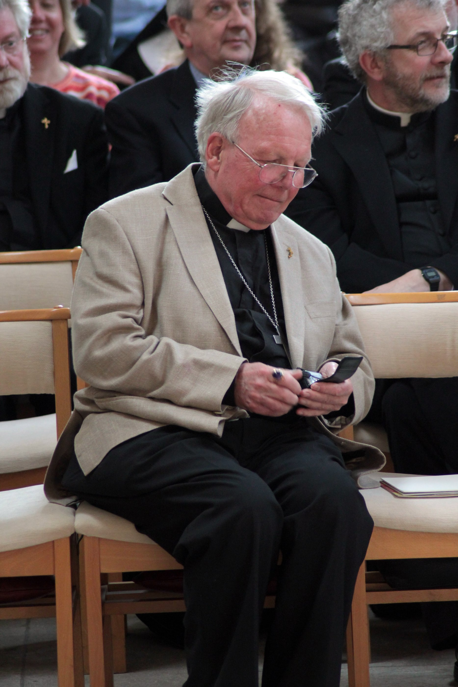 Bishop Edwin Barnes SSC